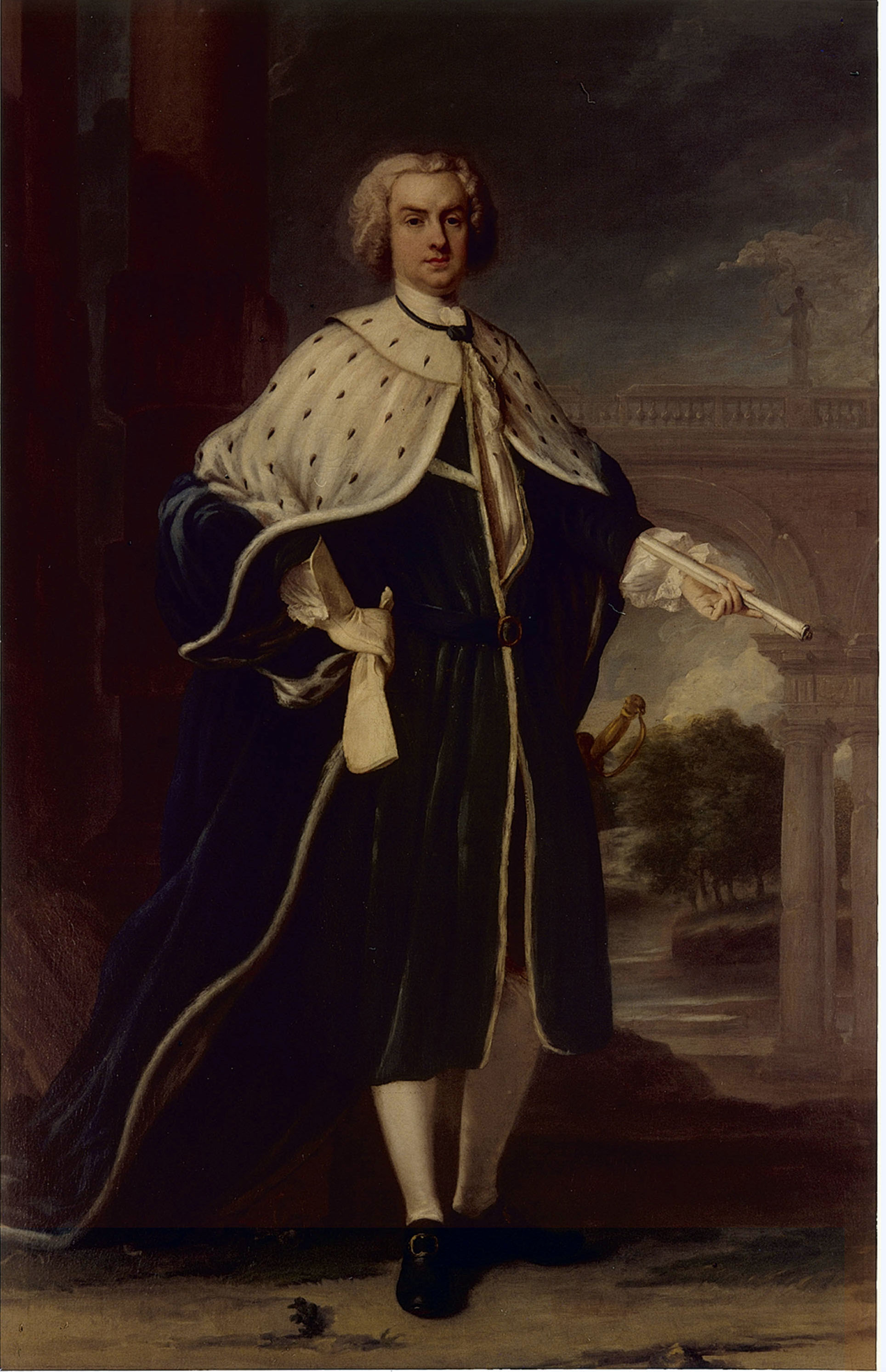 Charles Calvert, fifth Lord Baltimore, by Allan Ramsey(?) From the original painting in the collection of Enoch Pratt Free Library, Baltimore.